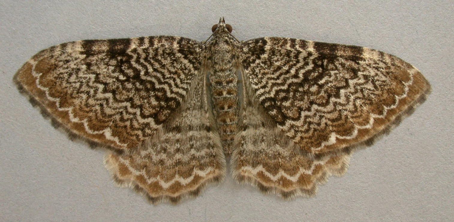 Hydria undulata, Scallop Shell, Dyffryn, North Wales, June 2007